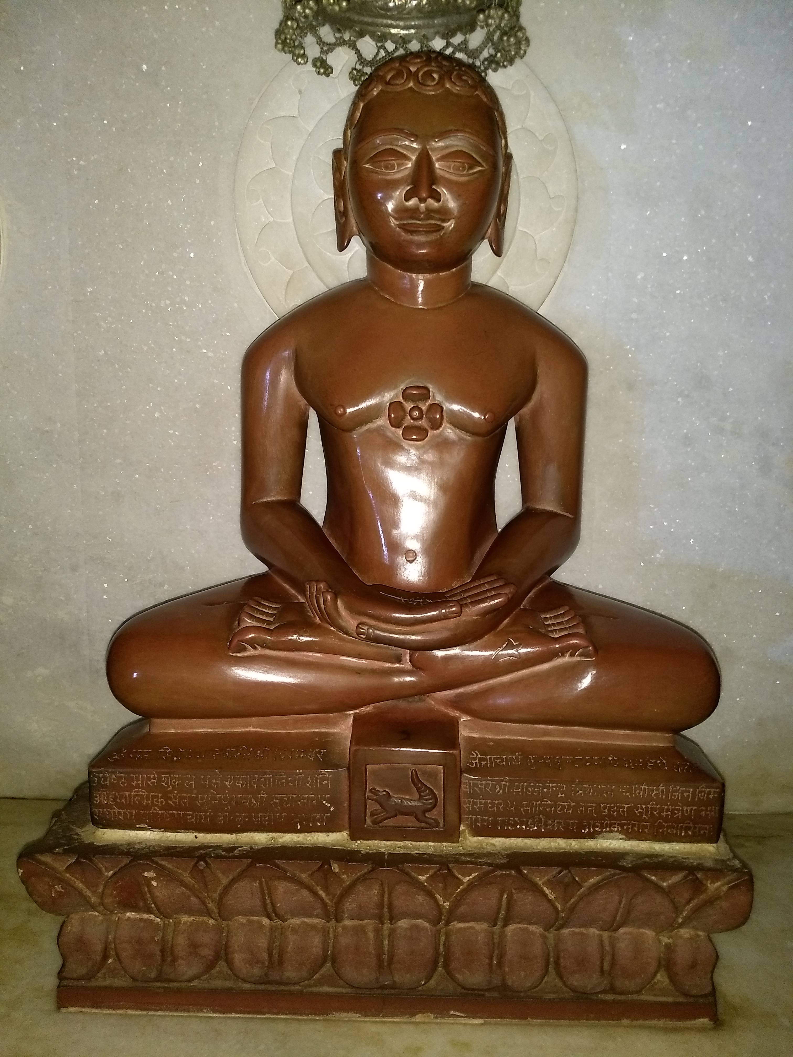 Jain statues in Anwa, Rajasthan